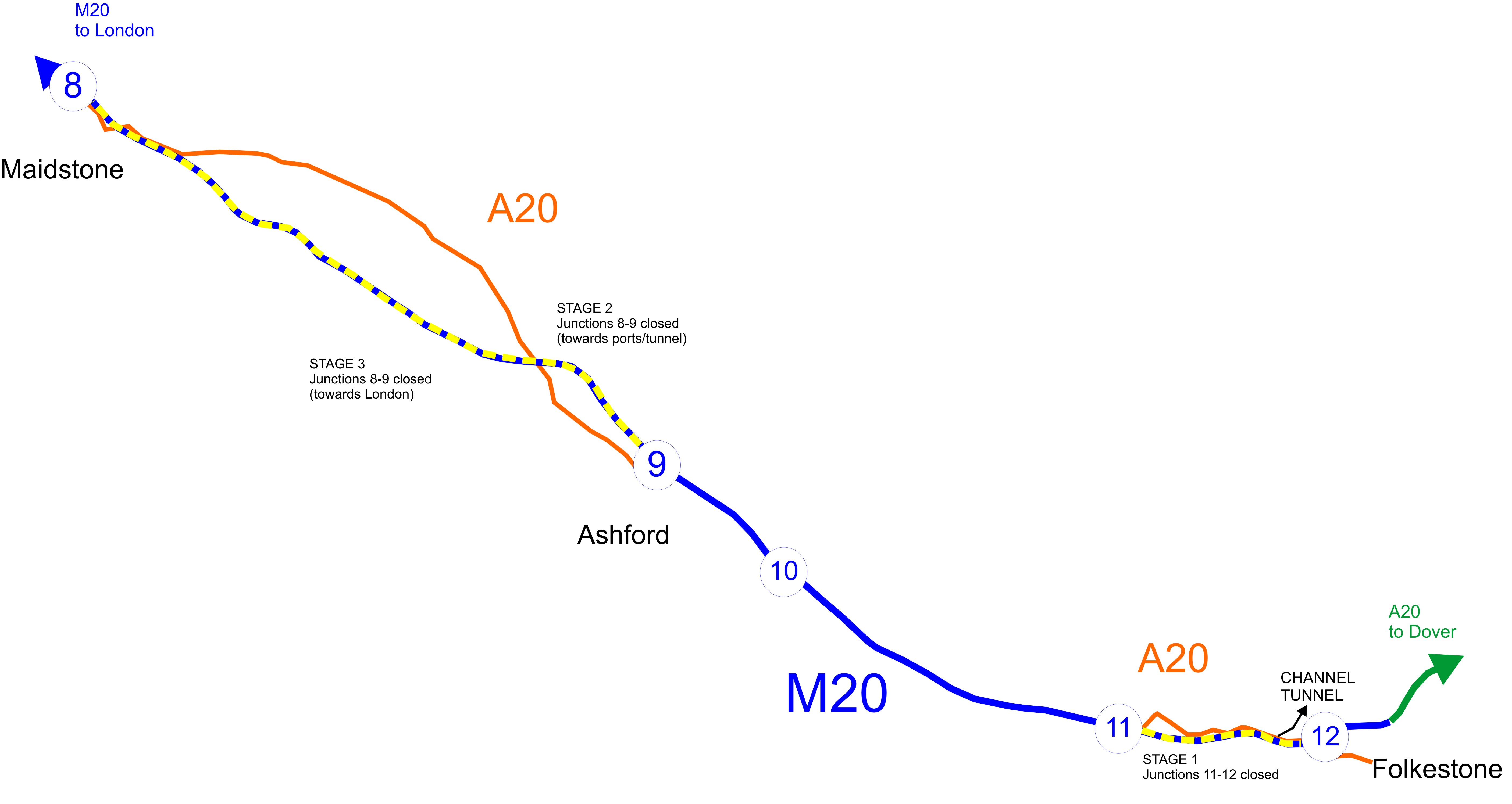 Plan showing the phases of Operation Stack used on the M20 motorway in Kent, England.